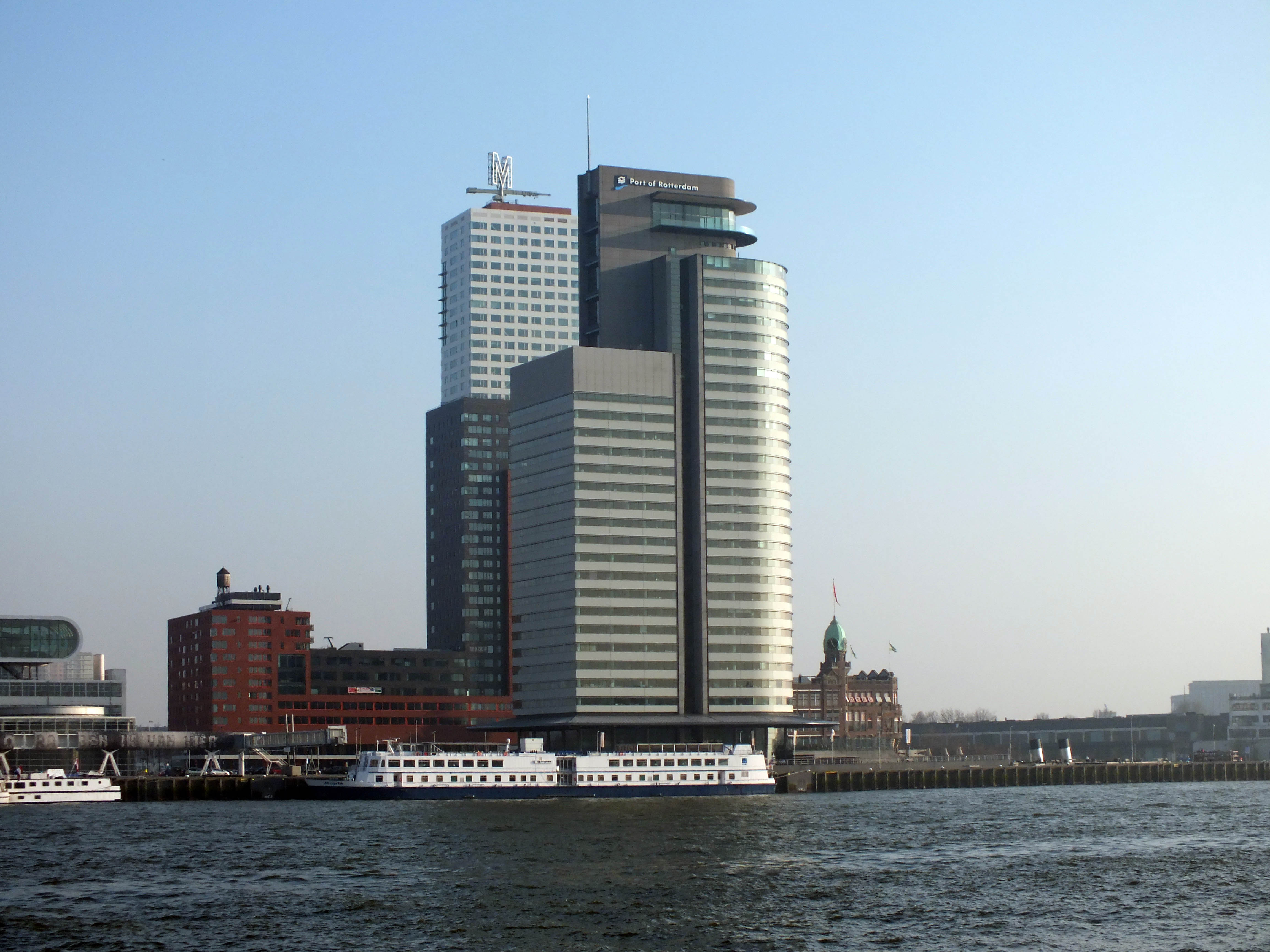 The main office of the Port of Rotterdam